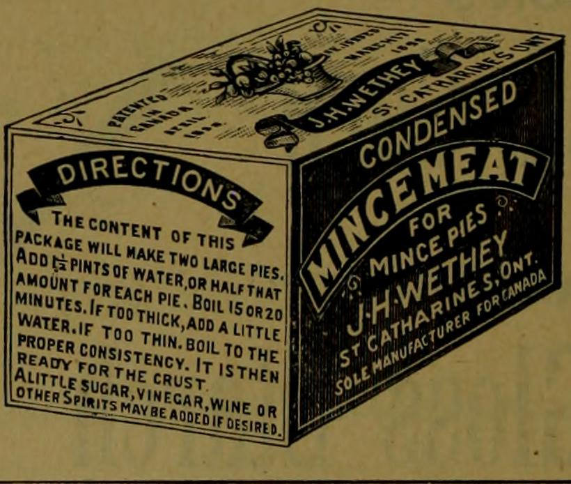 Identifier: cangrocerjulydec1895toro Title: Canadian grocer July-December 1895 Year: 1895 (1890s) Authors: Subjects: Supermarkets Grocery trade Food industry and trade Publisher: Toronto : Maclean-Hunter Pub. Co. [1887]- View Book Page: Book Viewer About This Book: Catalog Entry View All Images: All Images From Book Click here to view book online to see this illustration in context in a browseable online version of this book. Text Appearing Before Image: THE ROYAL HOTEL, Hamilton, July 12th, 1894.The F. F. Dalley Co., Ltd., City : Dear Sirs,—Our porters, having a large number ofboots to polish every day, ranging from seventy-five totwo hundred pairs, we endeavor to give them the bestblacking to be got. We have used all the best knownblackings in the market, and have pleasure m statingthat the ENGLISH ARMY BLACKING is theirchoice, as they consider it far superior to any other makefor a quick, bright and permanent polish, giving abeautiful jet black finish to the leather.Yours truly, Hood & Bro., Proprietors. CONDENSED MINGE MEAT Delicious Mince Pies every day in the year. Handled by retaileras shelf or countergoods. No waste.Gives general satis-faction. Sells at all Seasons. Will not ferment inwarm weatlier. Text Appearing After Image: The best andCheapest MinceMeat on Earth Price reduced to $12.00 per gross, net. J. H. WETHEY,St. CatharinesOnt. Manufacturers by appointment to Her Majesty the Queen,H.R.H. The Prince of Wales and the Army and Navy.